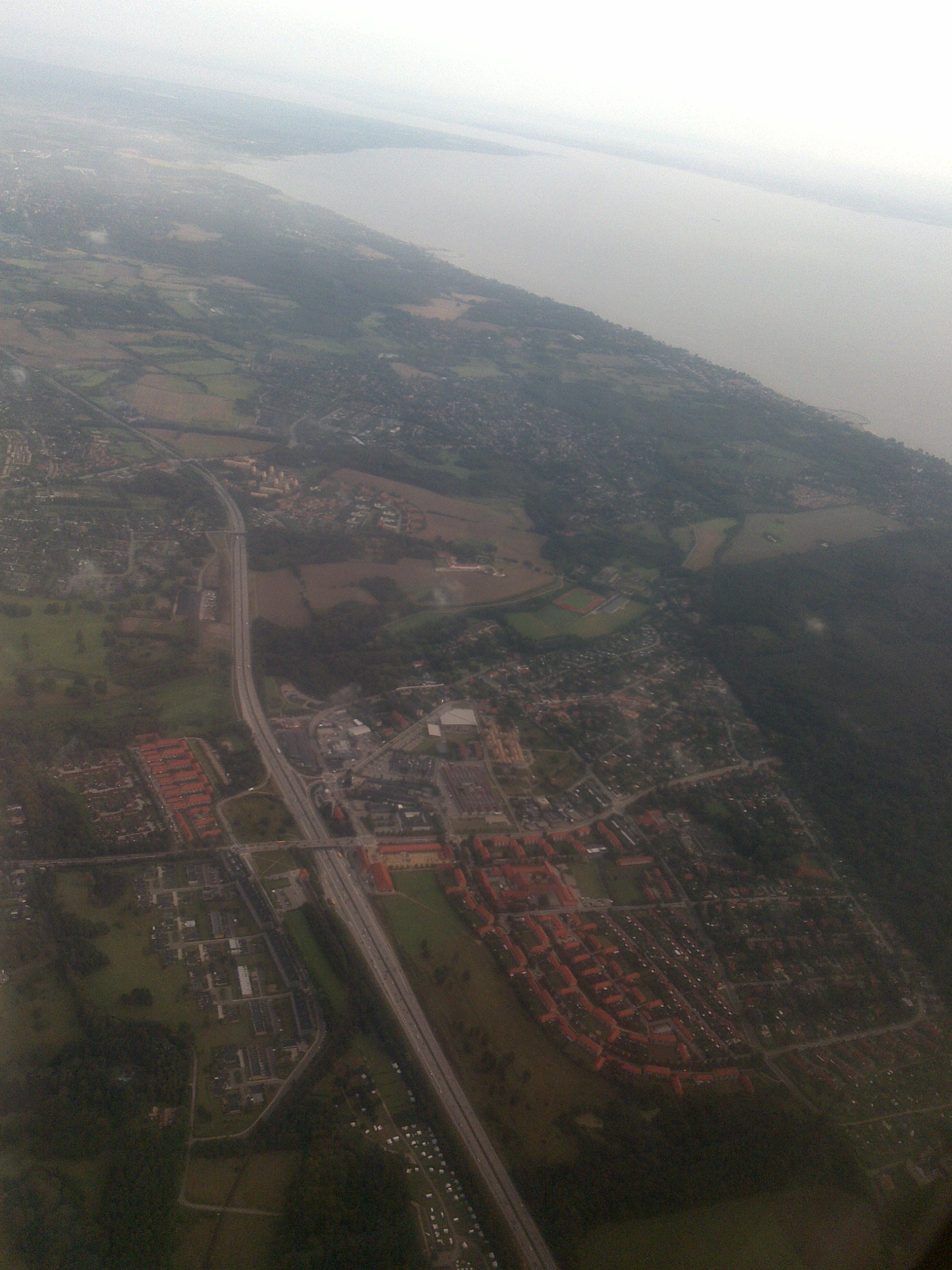 Närum town, in Rudersdal municipality, 20 km north of Copenhagen.